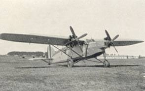 Italian Caproni Ca.102 airliner and transport aircraft